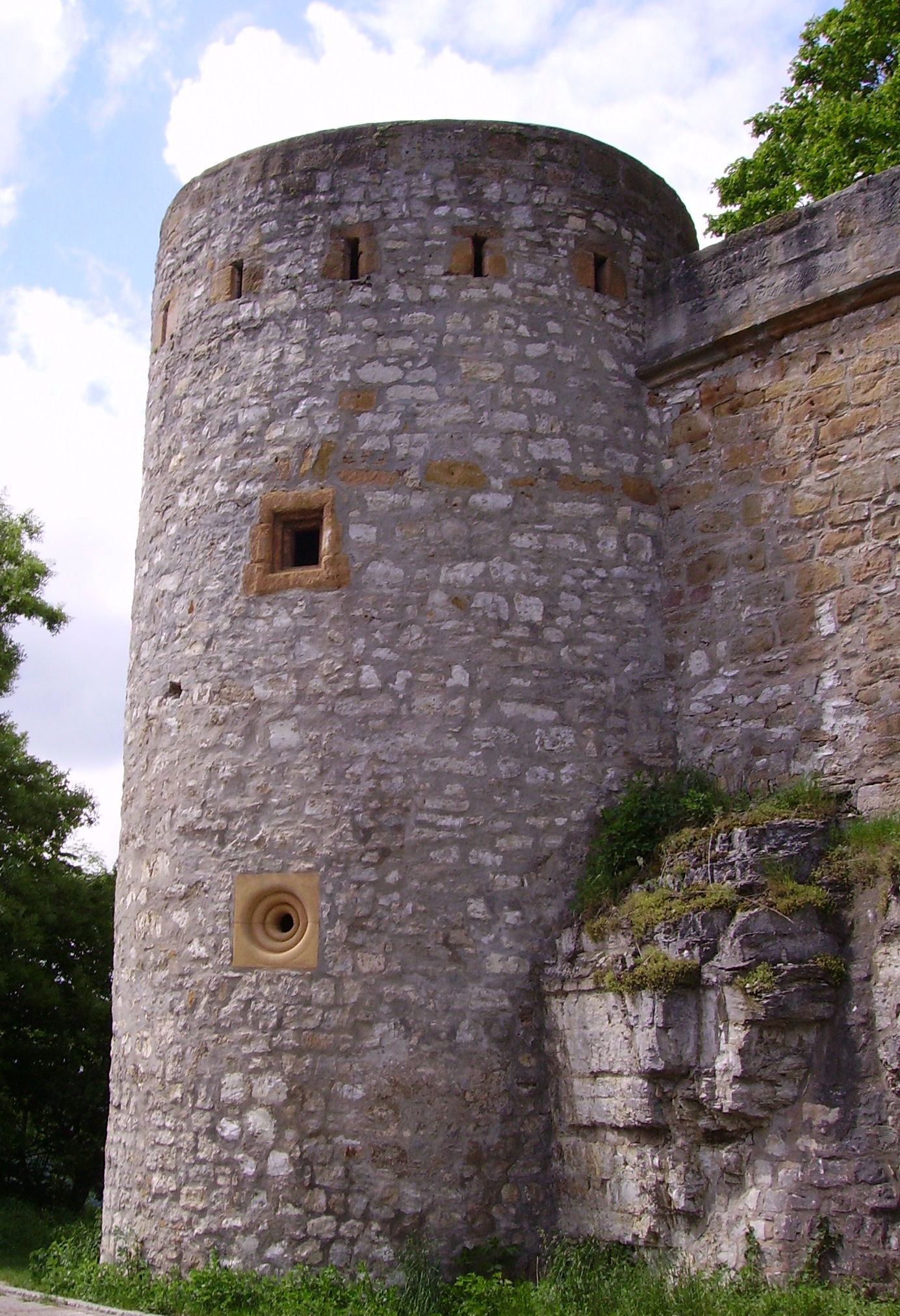 views of Scheßlitz, Germany